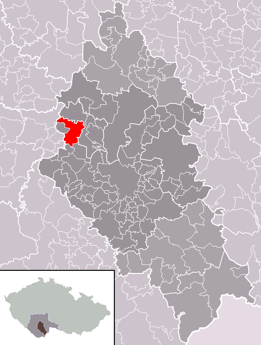 Location of Sedlec municipality within České Budějovice District and administrative area of České Budějovice as a Municipality with Extended Competence.